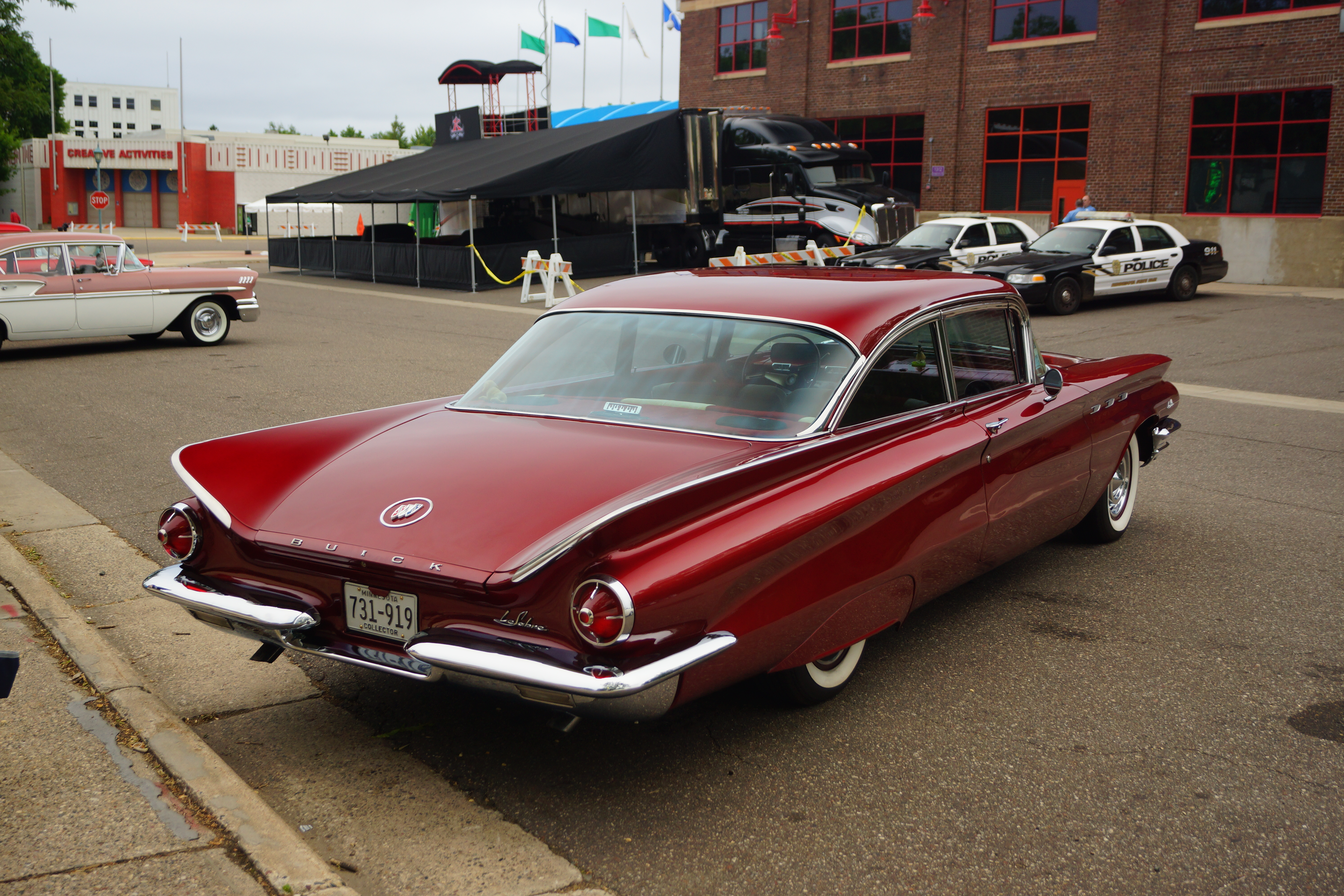 Minnesota Street Rod Association (MSRA) “BACK TO THE 50′s” 44th Annual Car Show June 23-25, 2017 Minnesota State Fairgrounds St. Paul Minnesota Click here for previous "Back to the 50's" pictures.. Click here for more car pictures at my Flickr site. Or here for my Car Crazy Tumblr site. Or on Twitter @DVS1mn.